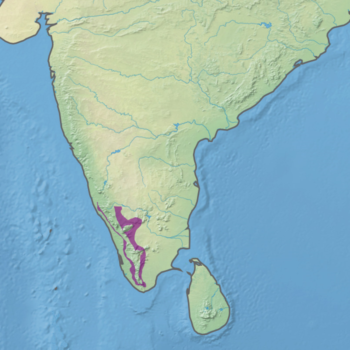 Ecoregion IM0150 - South Western Ghats moist deciduous forests (in purple)